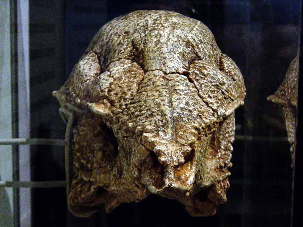 A cast of a fossilized Prenocephale prenes skull (view from front), exhibited at the temporary Howard st. location of the California Academy of Sciences. From display: Prenocephale prenses skull; Late Cretaceous (99.6-66.5 Million years ago); Gobi Dessert, Mongolia; American Museum of Natural History FR 30606 (cast)